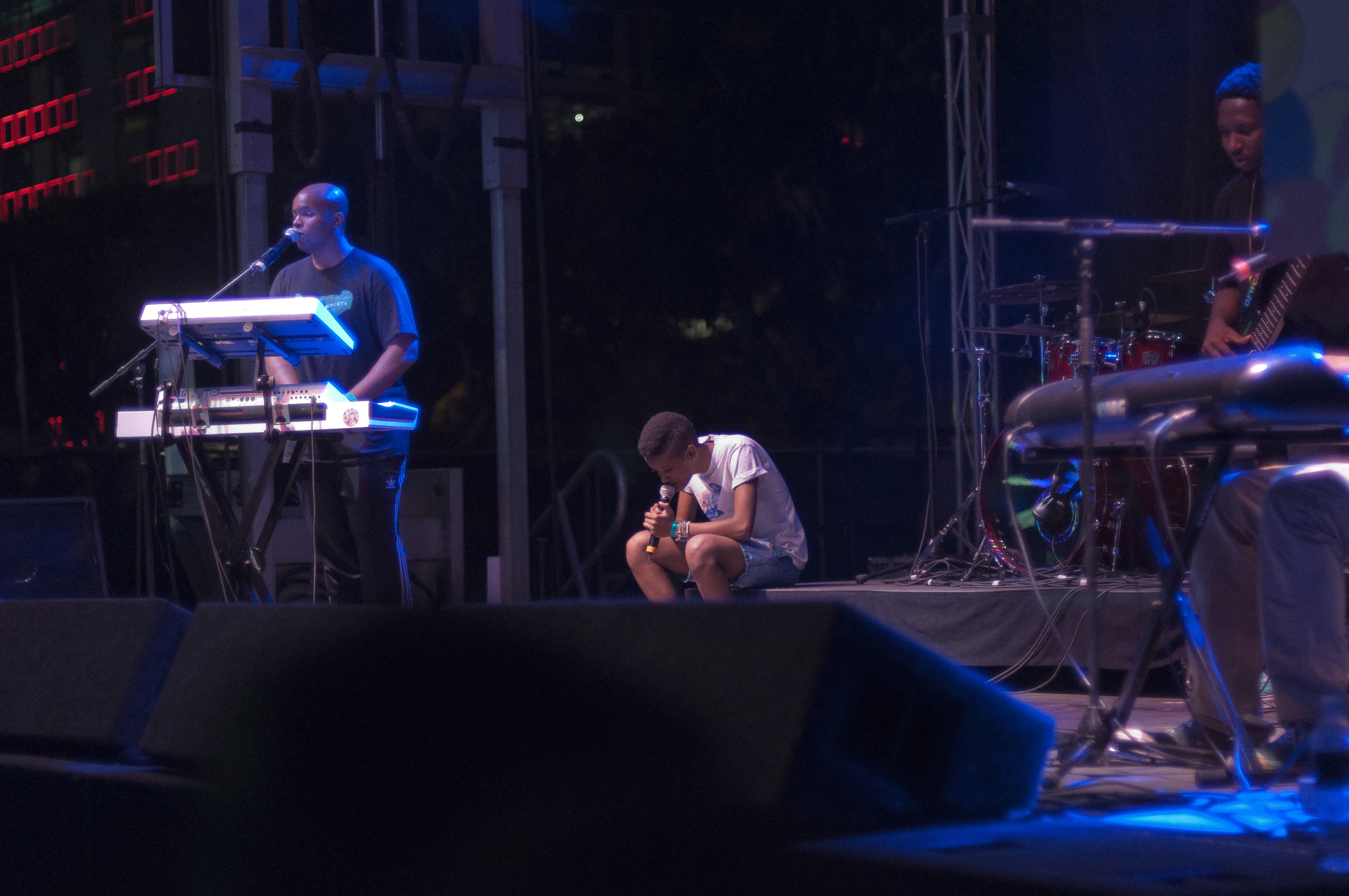 The Internet (Matt Martains [left] and Syd tha Kyd [middle]) performing in LA, California, 2012.